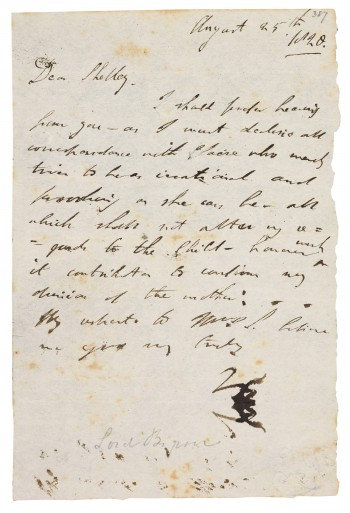 Letter from Lord Byron regarding his daughter Allegra, addressed to Percy Bysshe Shelley.